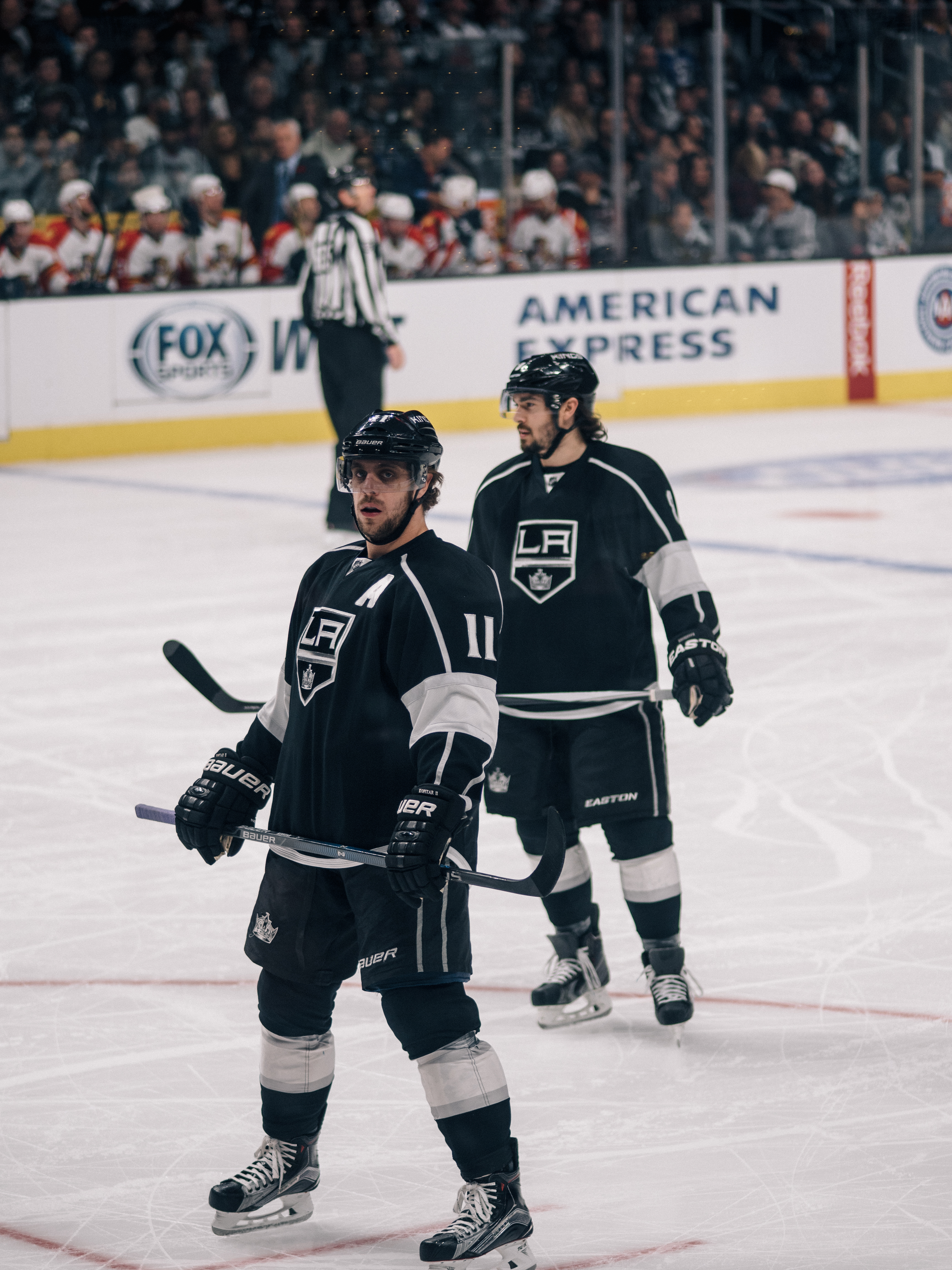 Olympus OM-D E-M5 Mark II with Olympus 75mm F1.8 and VSCO Film Filters